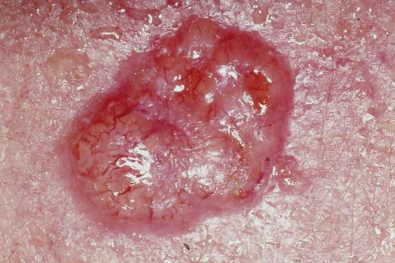 This is a photograph of a basal cell carcinoma on the back taken by me. Basal cell carcinoma is the most common skin cancer.